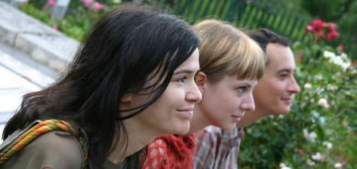 A sample image for image burning -- this is the original, unburnt image. Copyright Gutza 2004